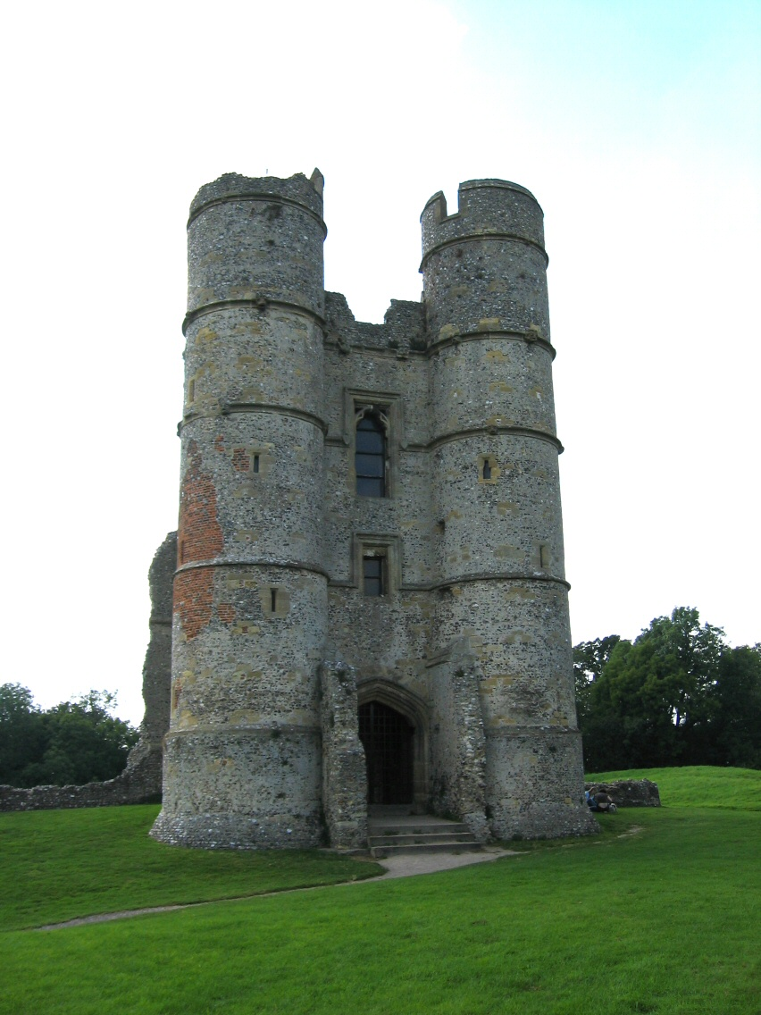 Remains of the castle gatehouse, Donnington Castle, Donnington, Berkshire, England. Picture taken by Martin Tod on September 2, en:2004.